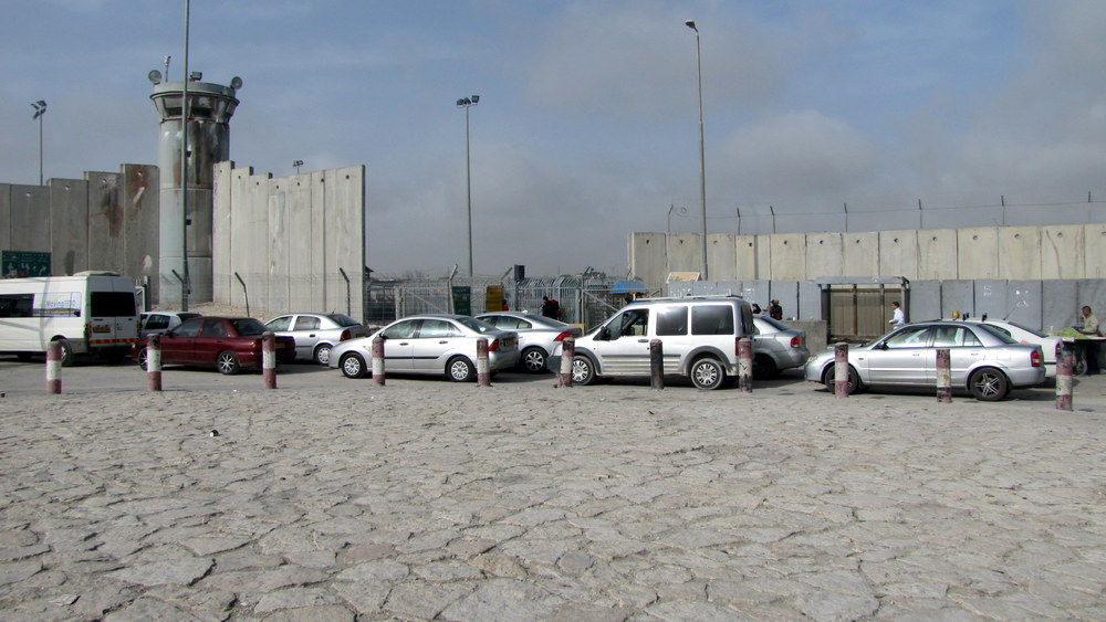 At the entrance to the checkpoint